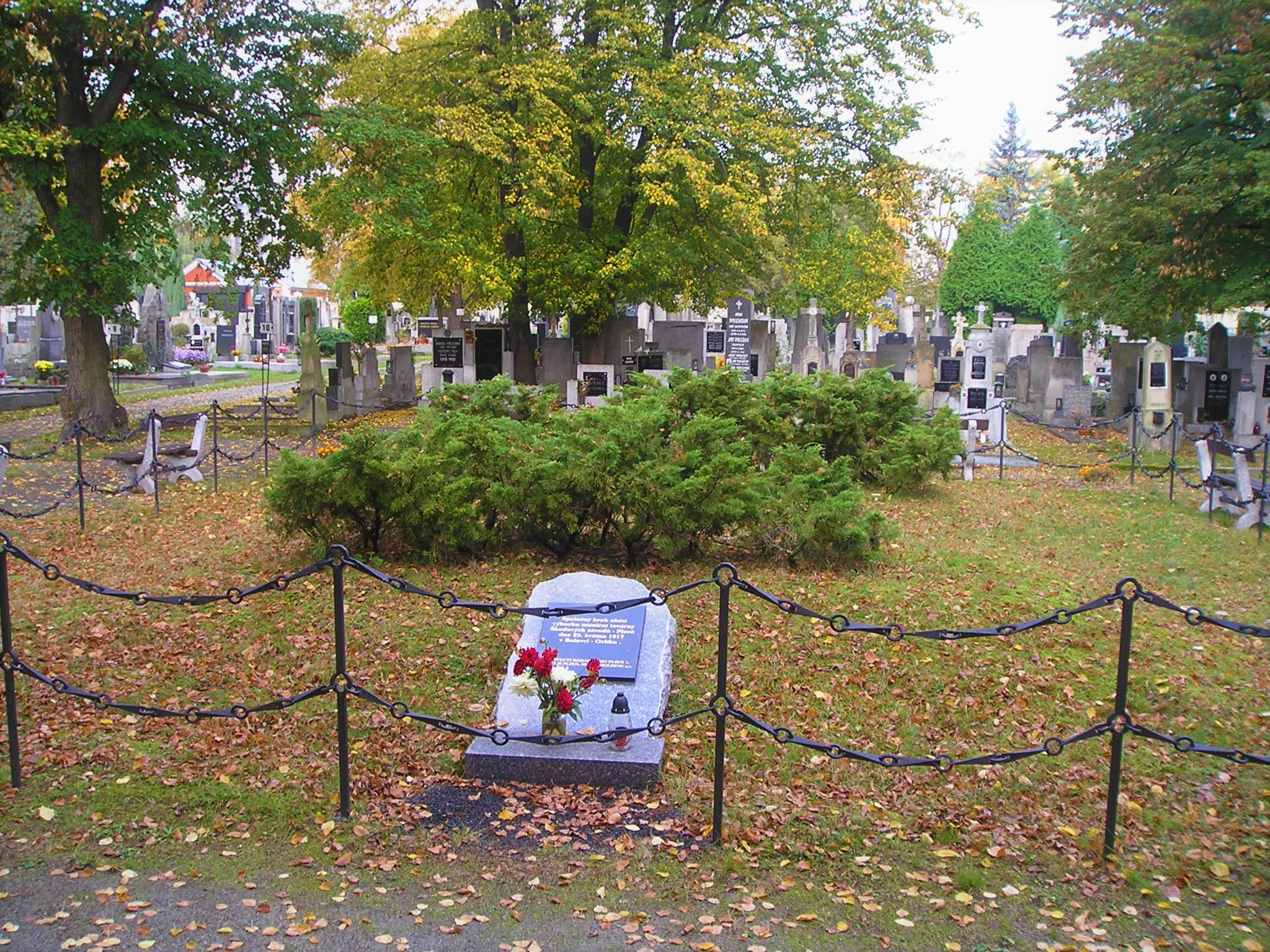 Hřbitov Bolevec (Plzeň-Bolevec, Plaská ul.), hromadny hrob obětí výbuchu bolevecké muničky v roce 2017